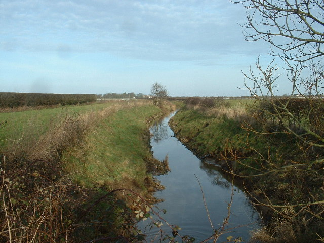 Cocker's Dyke. Labelled 'drain' on the map. It is one of many such dykes draining Pilling Moss.